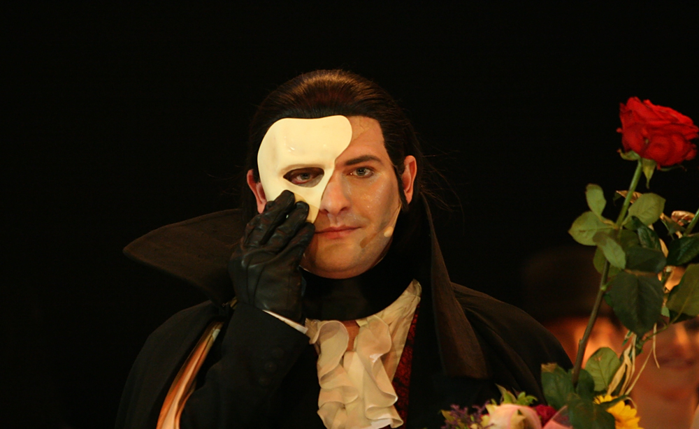 Paweł Podgórski as Phantom in the musical "The Phantom of the Opera" in Roma Musical Theatre in Warsaw, 05.05.2009.